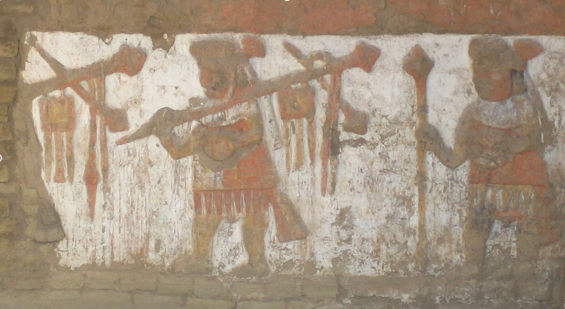 Detail of mural at Huaca de la Luna, Peru.